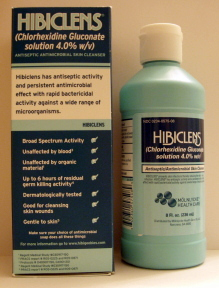 My own low-res photograph of a bottle of Hibiclens (and the box it was contained in) sold in the United States and purchased OTC. Hibiclens contains the antibiotic chlorhexidine.